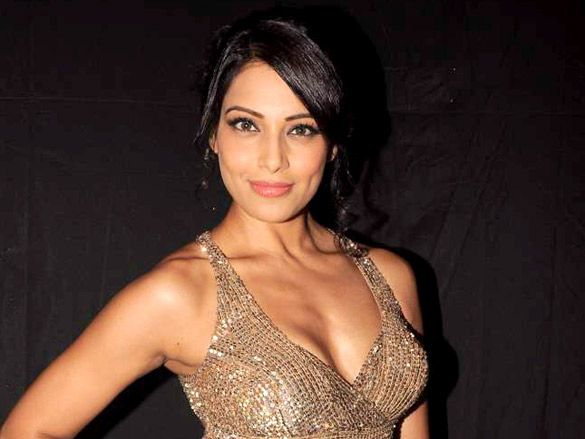 Bipasha Basu at Rocky S's show at Lakme Fashion Week 2012